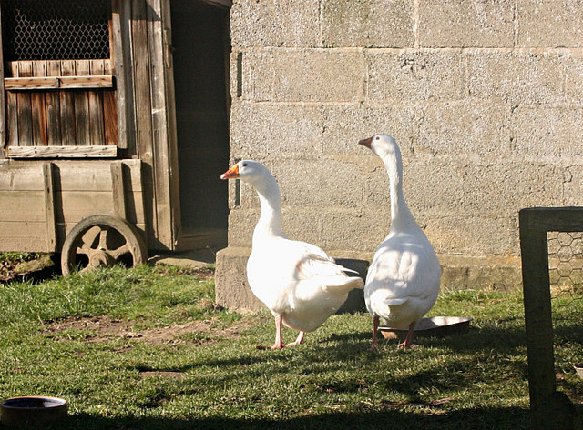 Geese, near Langridge Geese were much prized by the Romans as watchdogs. These two were remarkably friendly, they didn't even hiss, just gave me a dirty look. Probably because I didn't stay long enough.